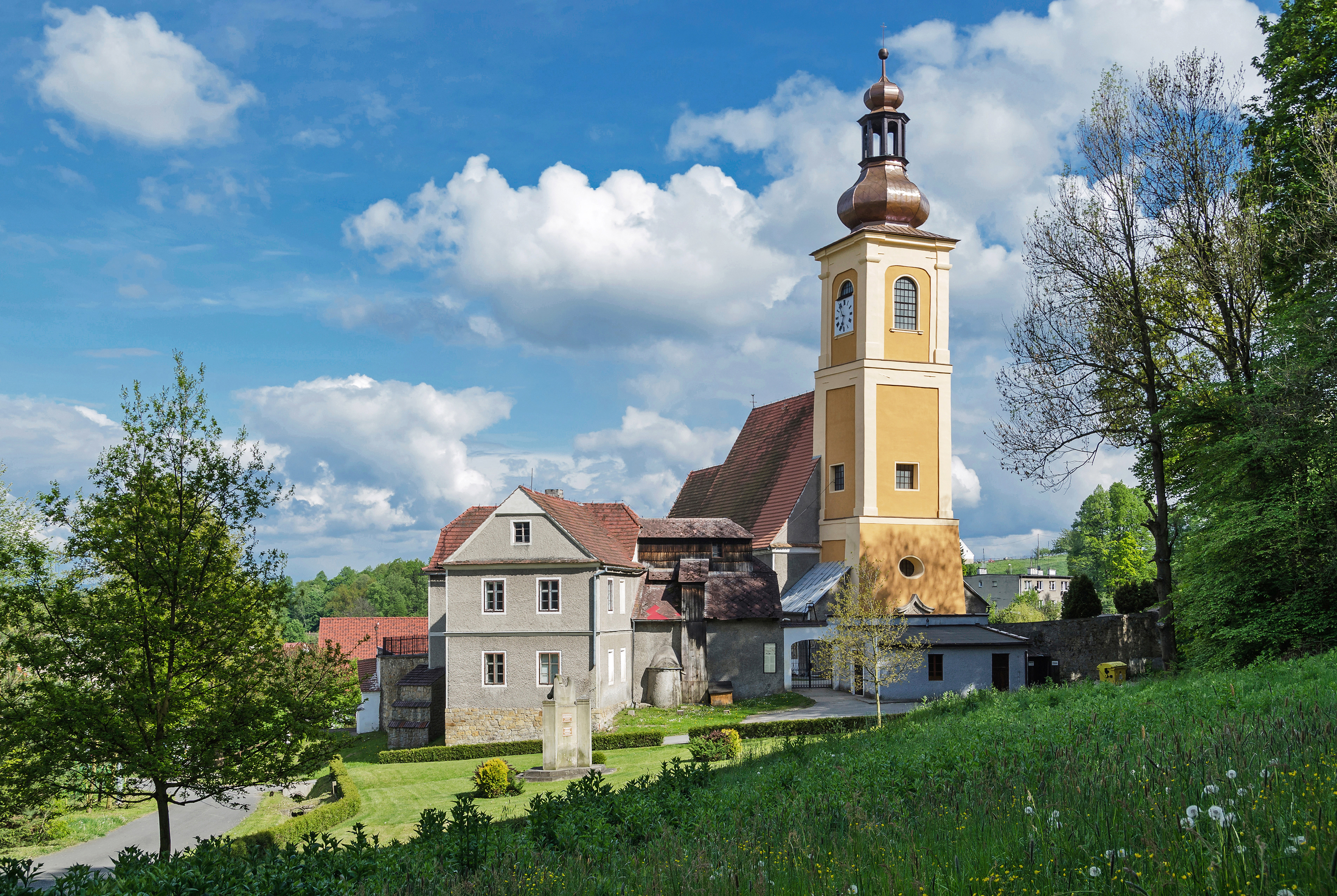 Saints Simon and Jude church in Szalejów Dolny